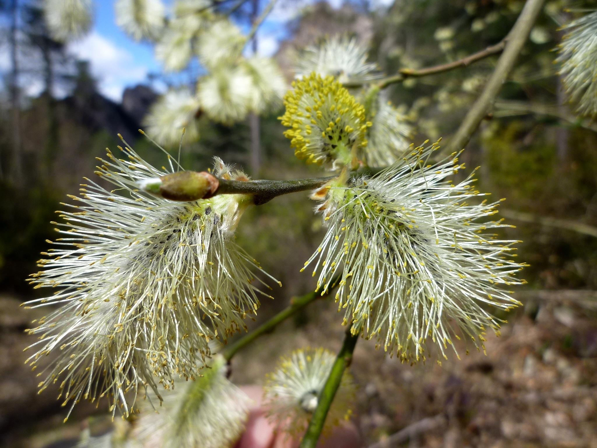 Salix caprea. In Guixers (Solsonès-Catalunya). To 1.030 m. altitude